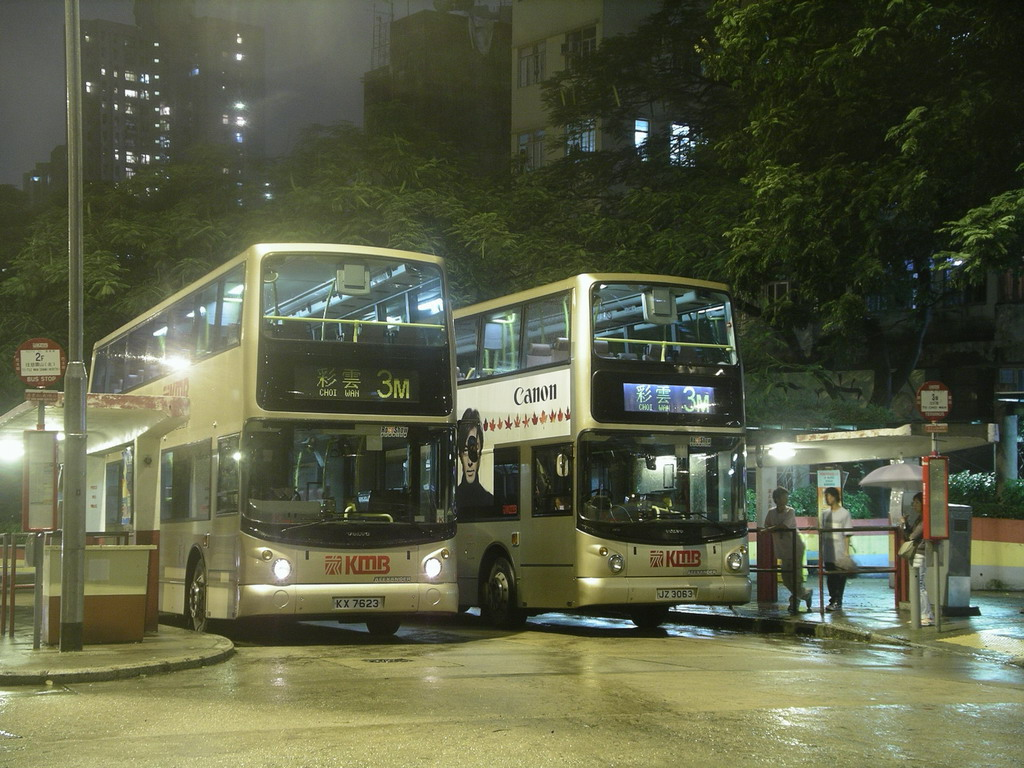 Last night for the Kowloon Motor Bus route 3M terminus at Tsz Wan Shan (S) B/T